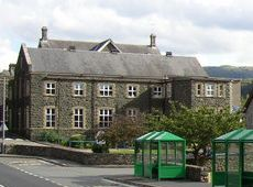 Coleg Meirion-Dwyfor, Dolgellau, Gwynedd, Wales.